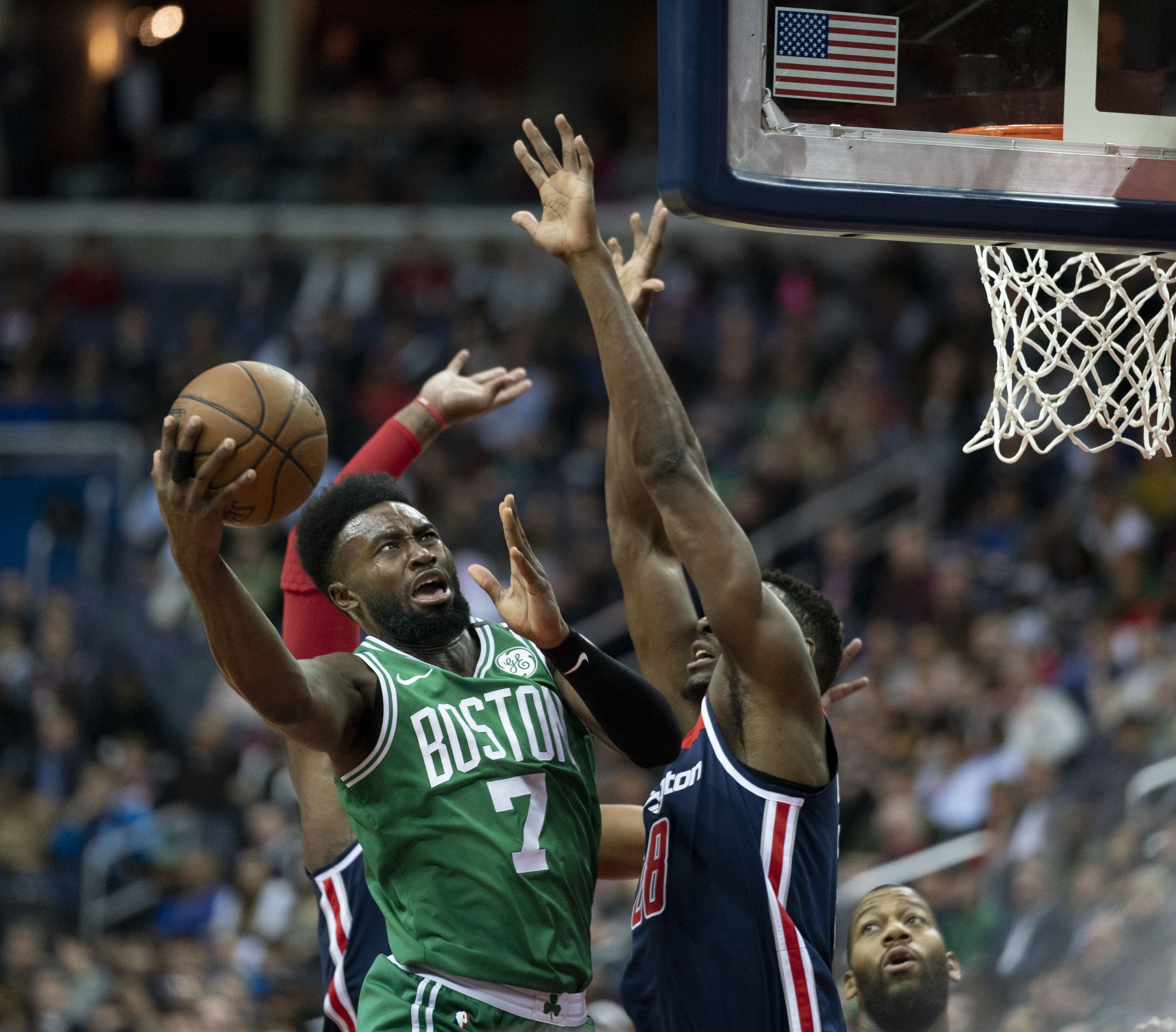 Celtics at Wizards 4/10/18